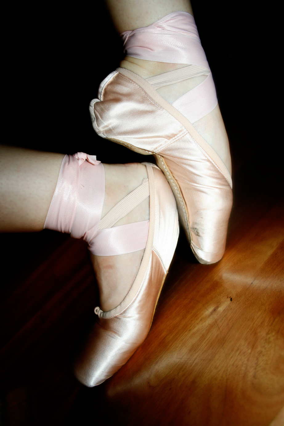 Ballet pointe shoes - Not the best pose but them I am leaning over to take the shot myself. Yes, these are my feet and the shoes are Grishko 2007s. Very nice shoe (though I don't like the ribbons) but it took me a while to get used to the smaller platform. Again, I realise the ribbon on my right foot is not done correctly.